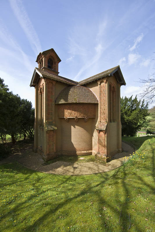 Author: Antony McCallum Watts Cemetery Chapel Compton Surrey